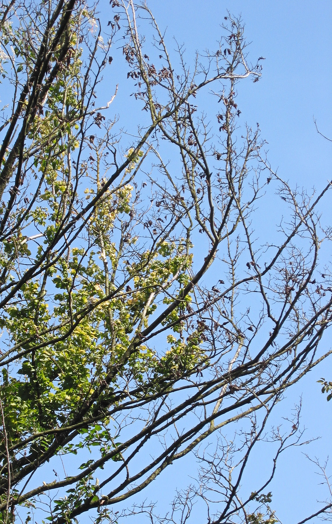 Dutch elm disease